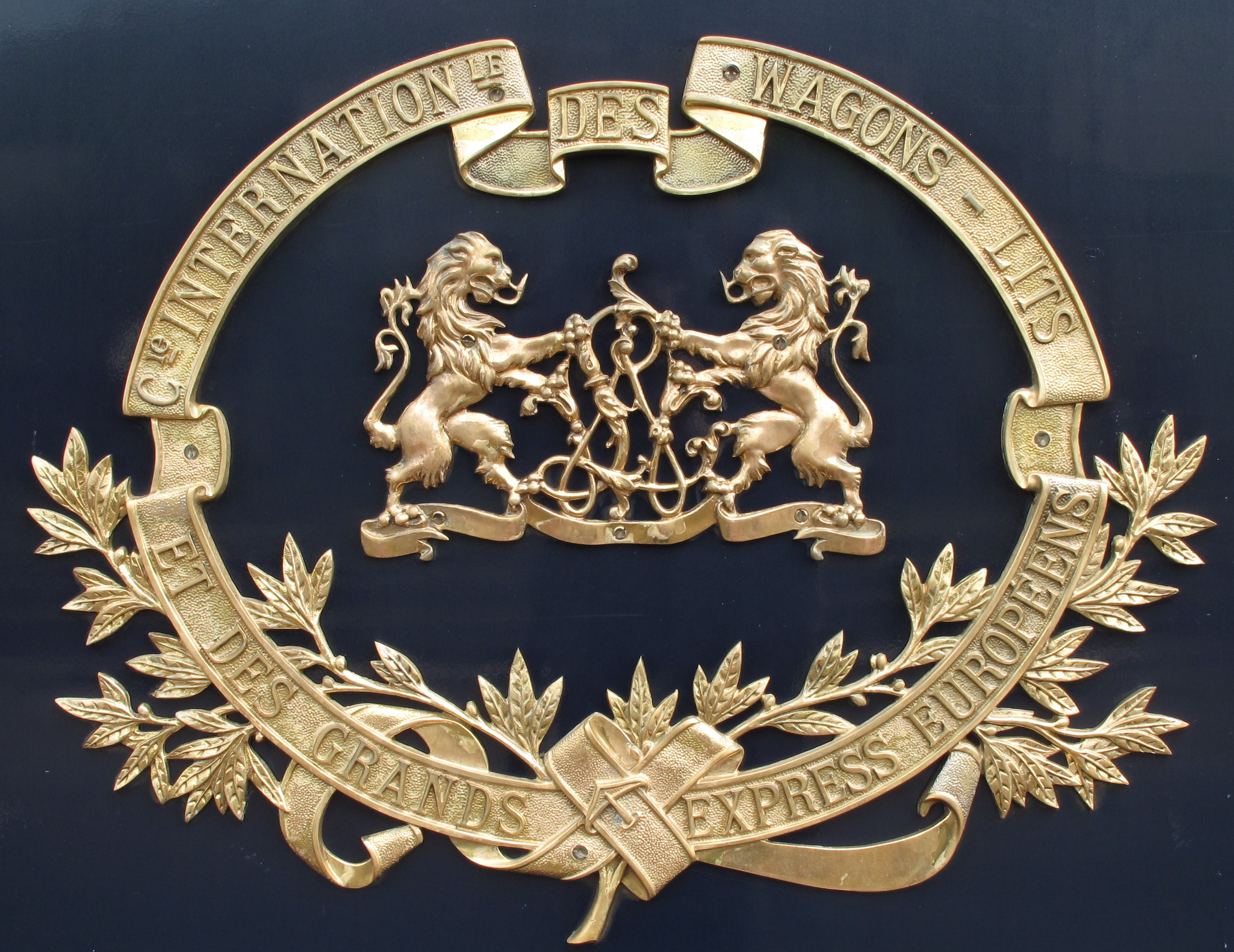 Orient Express train in Praha Smíchov Station, Prague, Czech Republic.